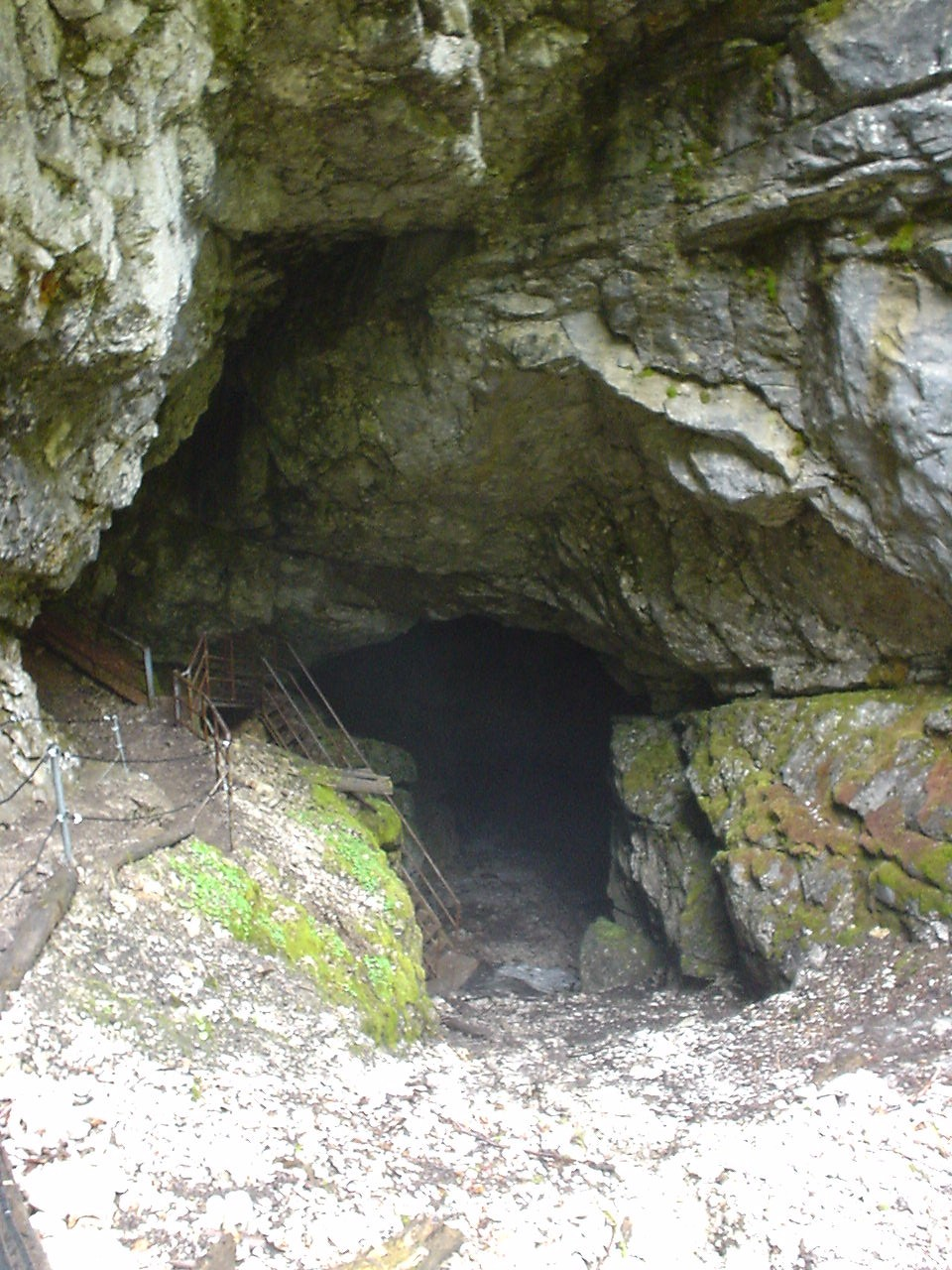 Mouth of Great Ice Cave in Trnovski Gozd, Slovenia